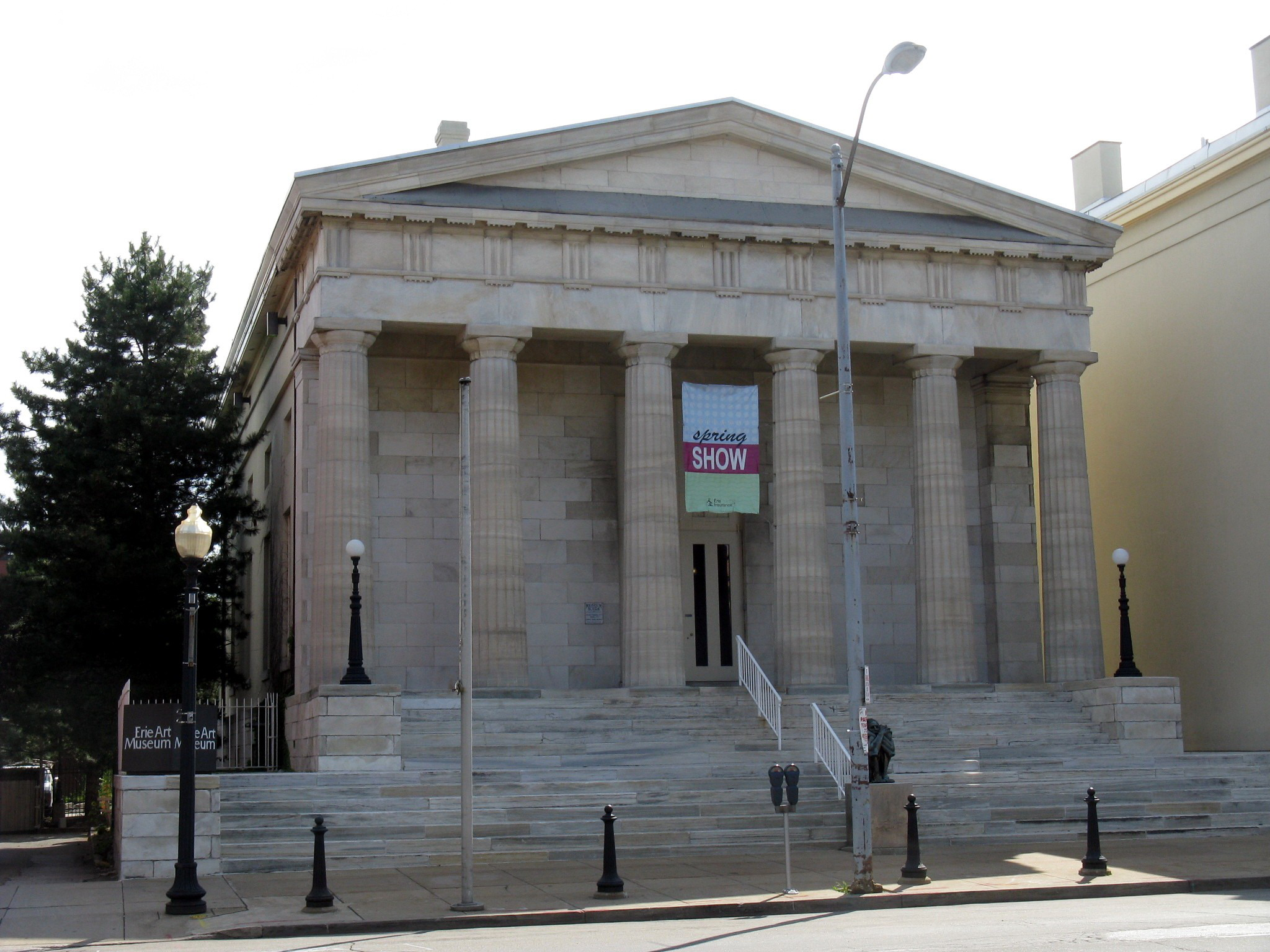 The former Erie Customs House — and present day Erie Art Museum. Located in Erie, Pennsylvania. Listed on the National Register of Historic Places.